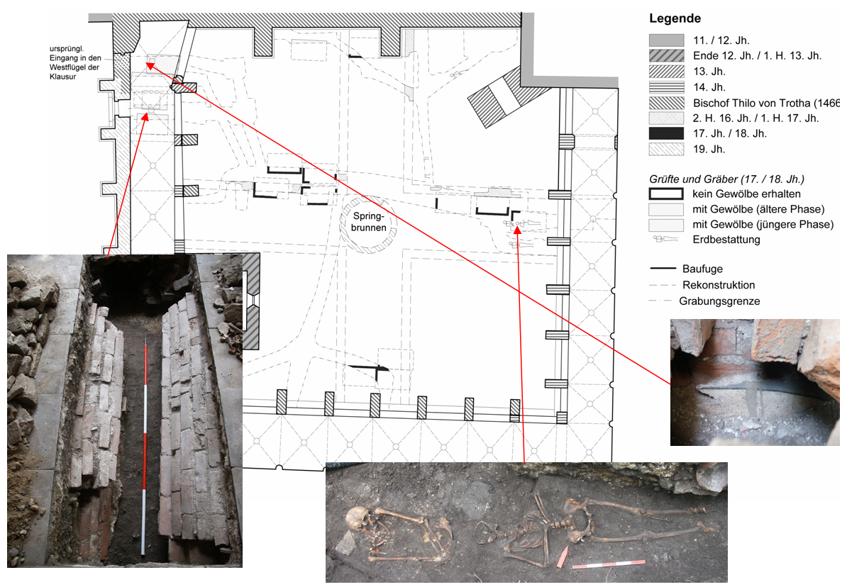 Merseburg Cathedral. Cloister walk and yard. Burials of 17th to 18th century. Excavations 2004.